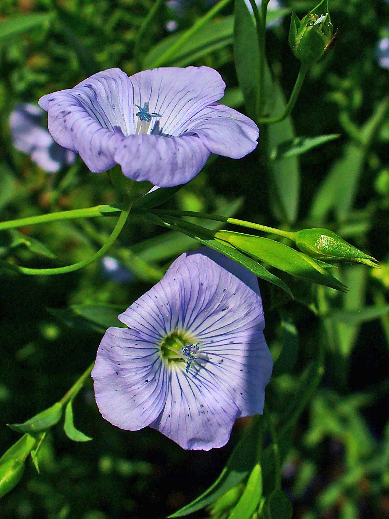 Linum usitatissimum, Linaceae, Flax, Linseed, flowers. The fresh, aerial parts of blooming plants are used in homeopathy as remedy: Linum usitatissimum (Linu-u.)